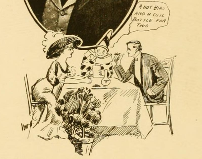 This is an illustration of Seattle businessman Carl Schmitz done by VON-A (William Charles McNulty) for the 1911 book The Cartoon; A Reference Book of Seattle's Successful Men, part of his work for the Seattle Cartoonists' Club.